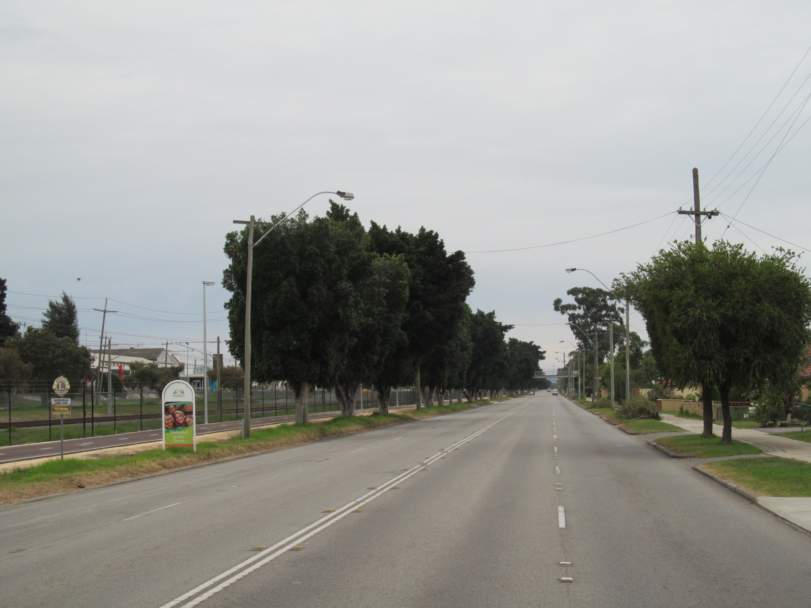 Guildford Road looking north-east from Pearson Street, Ashfield, Western Australia.